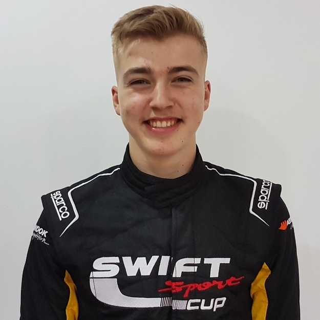 David Tarța Profile 2019